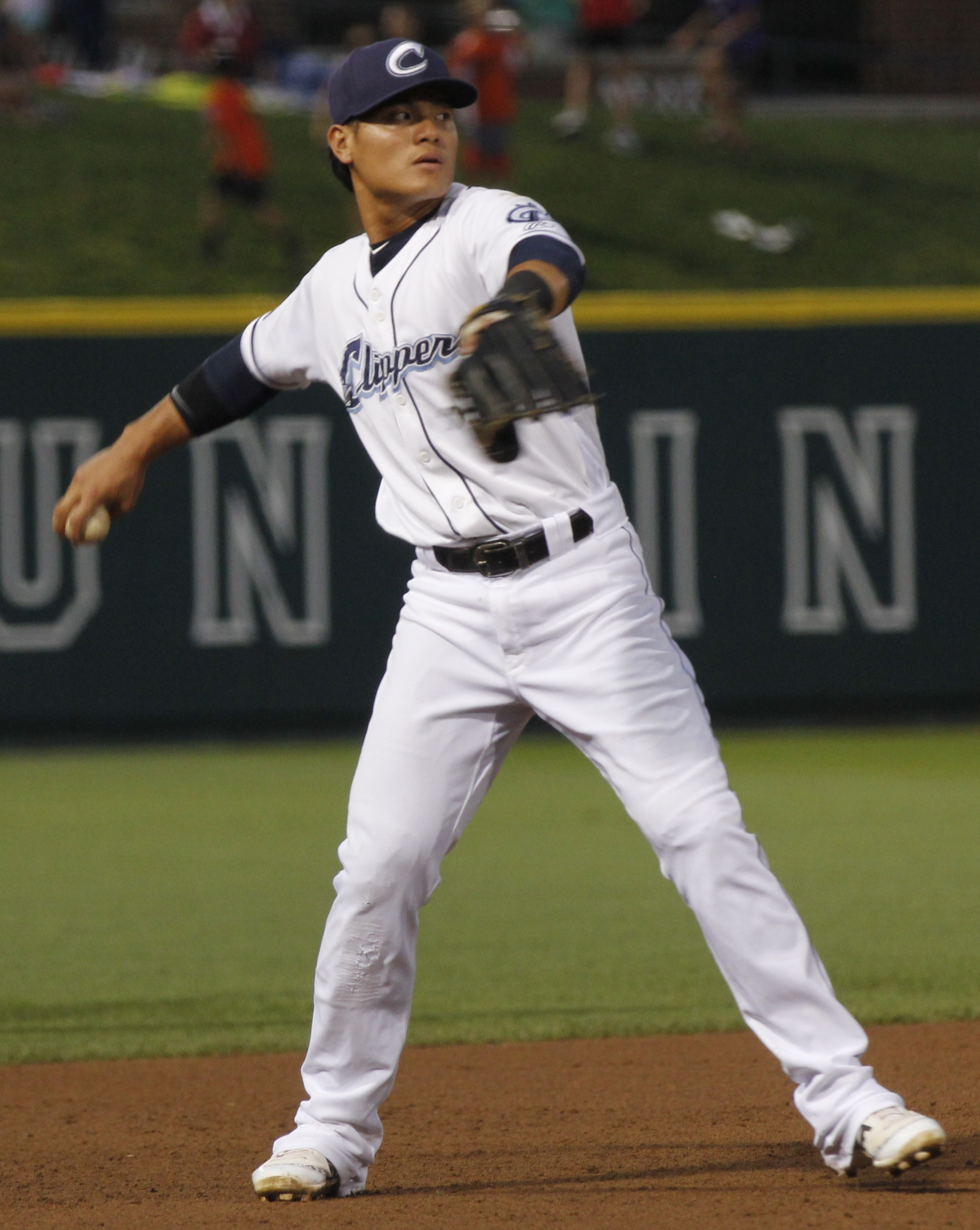 Yu Chang